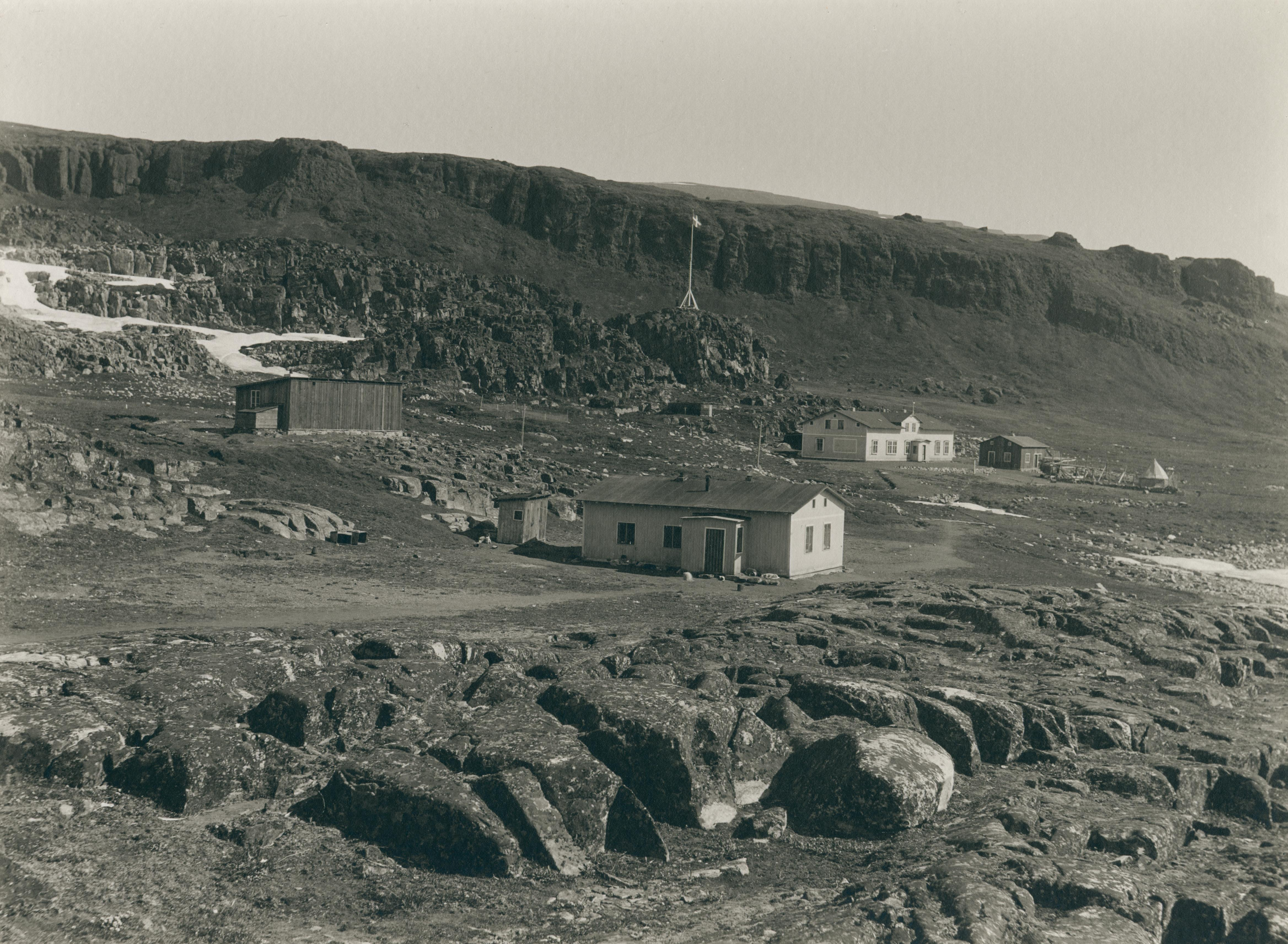 Greenland. The danish arctic station Disko - Qeqertarsuaq.